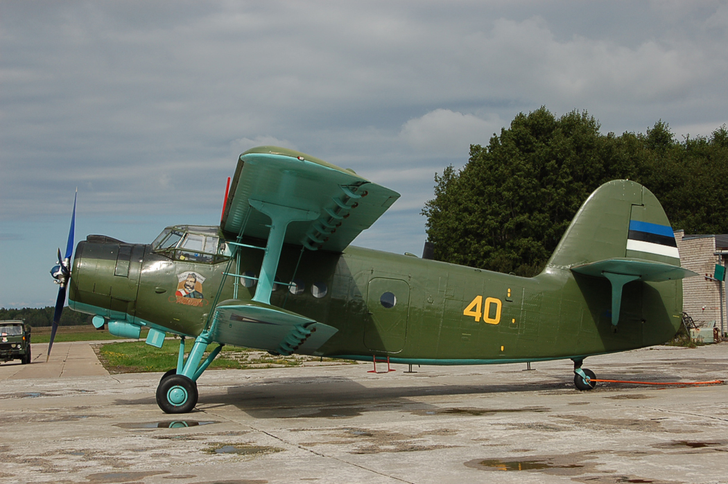 The Antonov An-2 "40" of Estonian Air Force